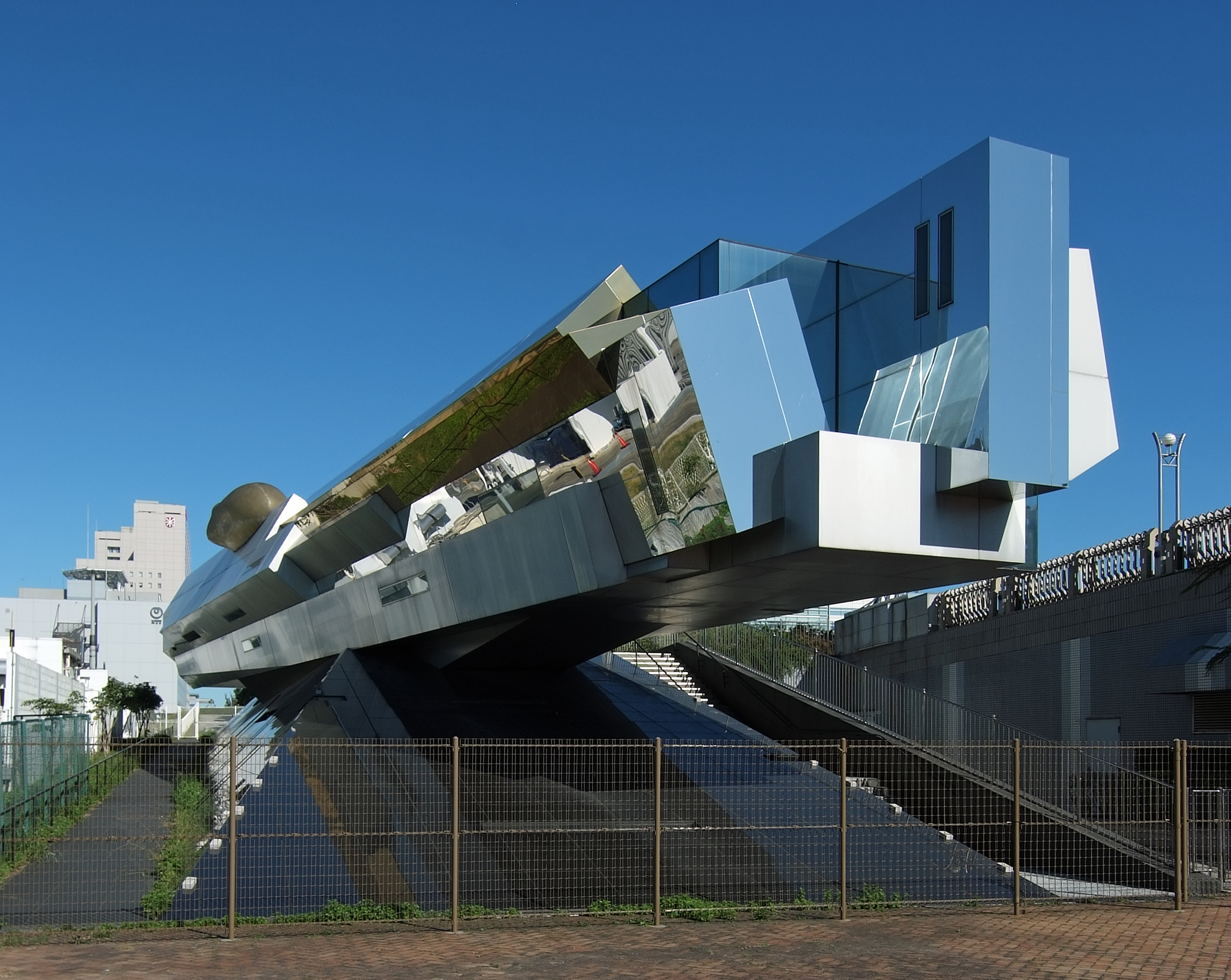 K-Museum, at Ariake, Tokyo, Japan, designed by Makoto Watanabe in 1997.